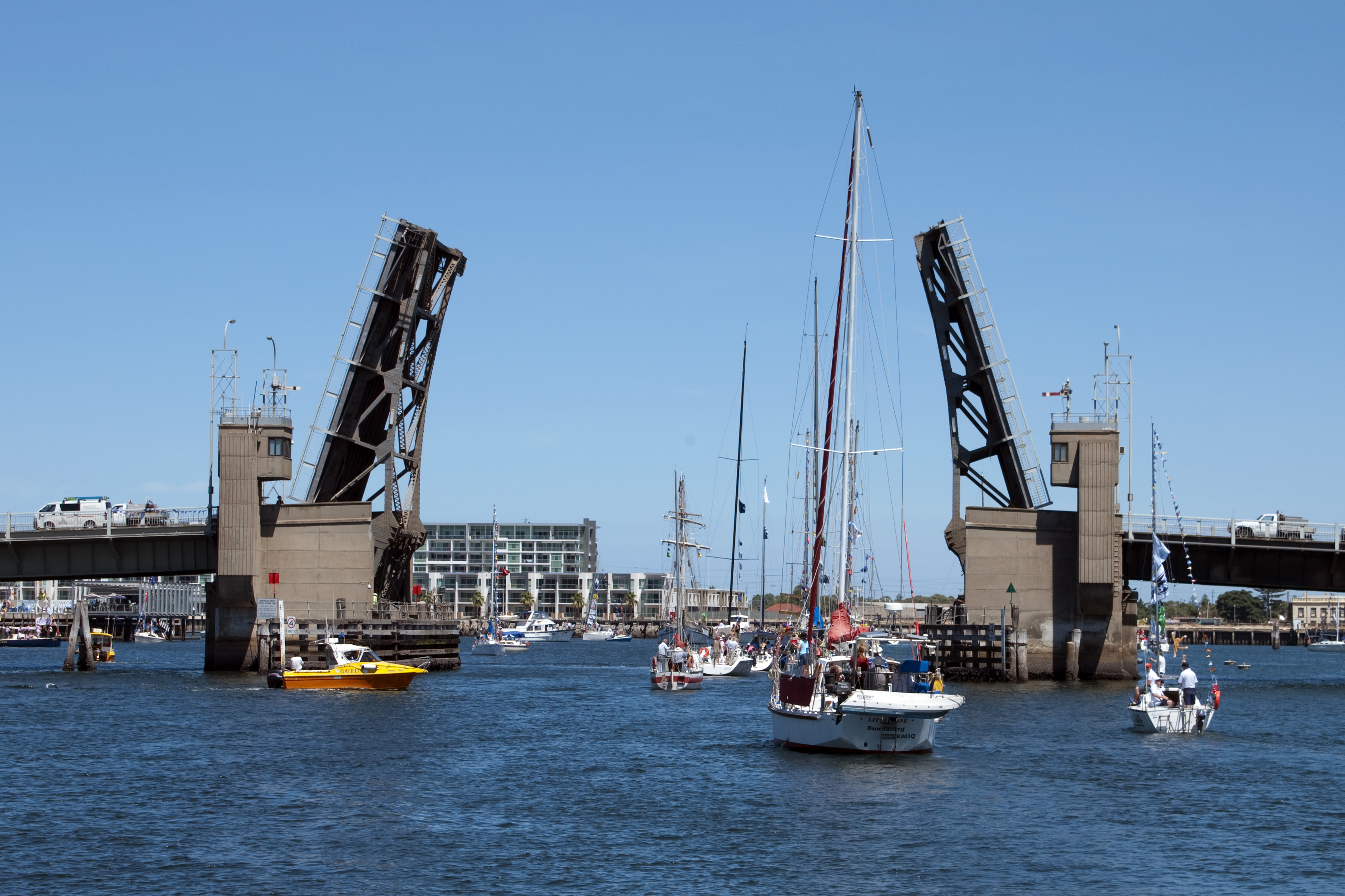 The Birkenhead Bridge at Port Adelaide open to allow passage of the boats at the annual fund raiser, Flotilla for Kids, on the Port River, Adelaide, South Australia.